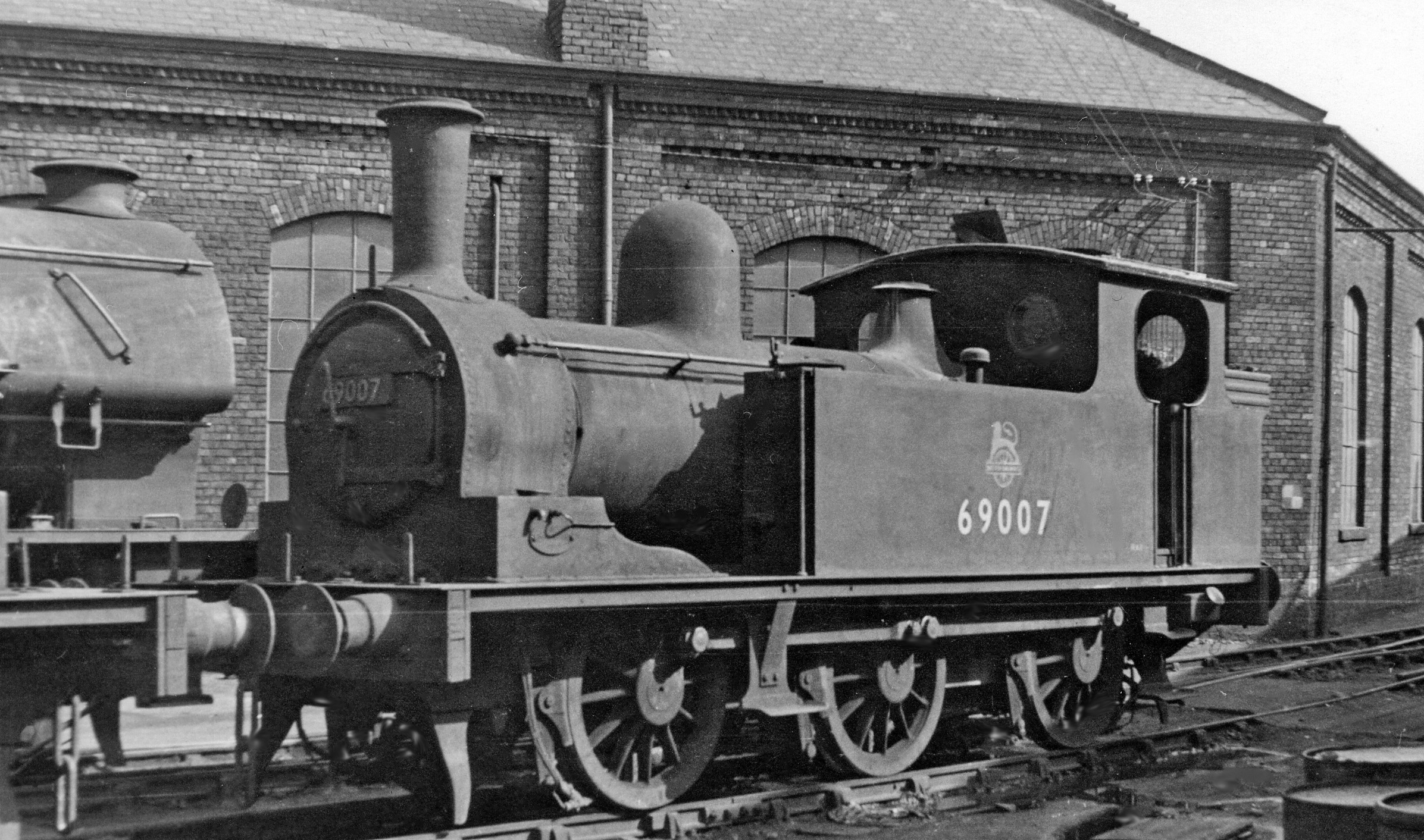 A 19th century 0-6-0T shunter built in 1949 stands outside Sunderland South Dock Locomotive Depot. This is one of 'modern' J72 0-6-0T's referred to in NZ4920 : Ex-North Eastern 0-6-0T at Middlesbrough Locomotive Depot, parked next to an ex-WD J94 0-6-0T outside the major Sunderland South Dock Depot, which in 1954 was coded 54A in the NE Region and had an allocation of 53 locomotives, comprising:- 1 2-6-0 (BR), 20 0-6-0, 6 4-6-2T, 3 0-6-2T, 11 0-6-0T (6 ex-WD) and 12 0-4-4T.